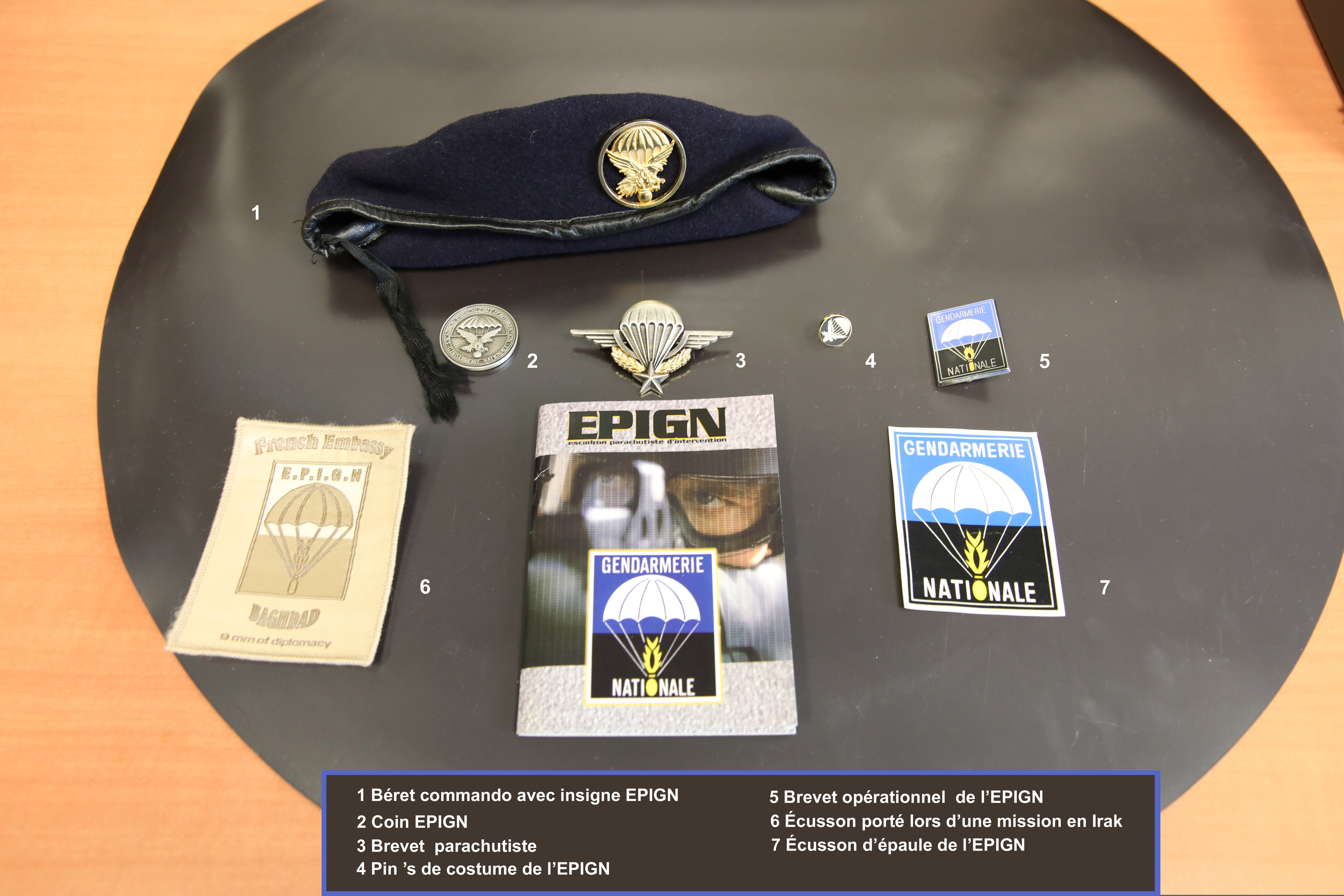 EPIGN, the former French Gendarmerie Parachute Squadron was disestablished in 2007.